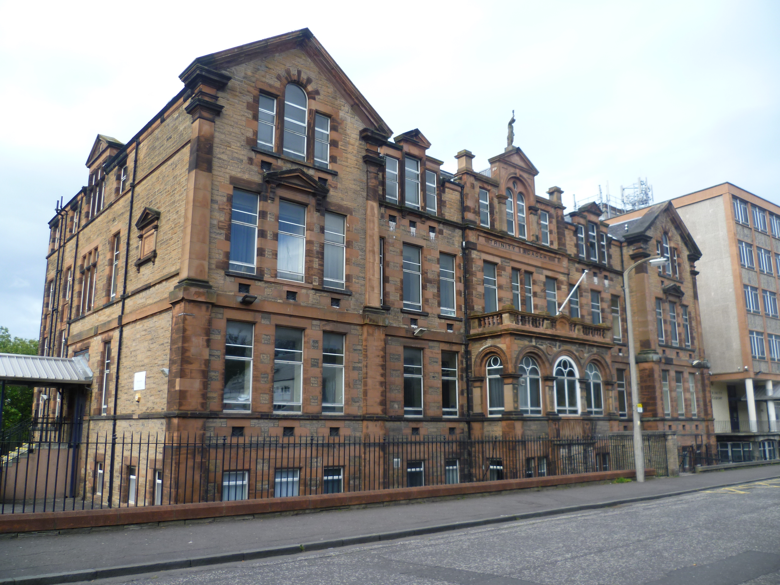 Trinity Academy Old Building, off Craighall Avenue, Leith